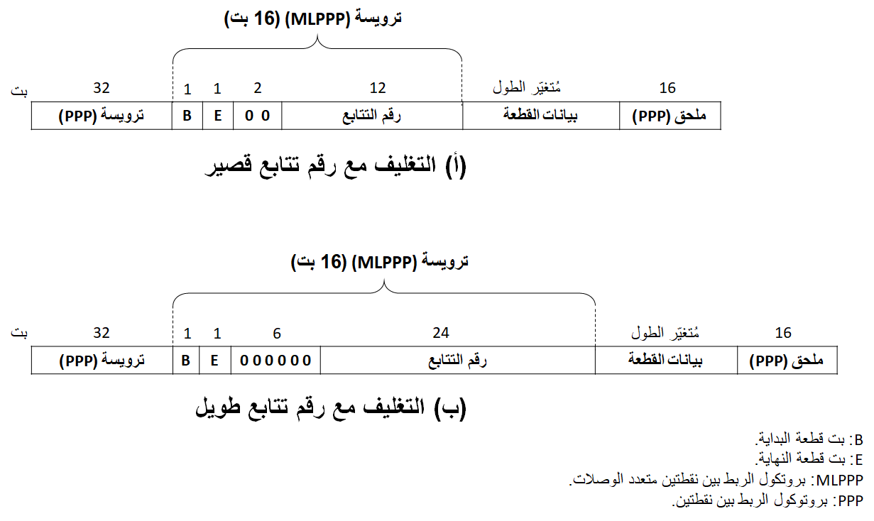 MLPPP data fragment encapsulation. (a) short sequence (b) long sequence.